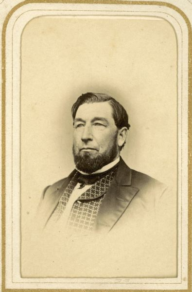 Head and shoulders portrait of Philo Dunning, Wisconsin businessman and politician